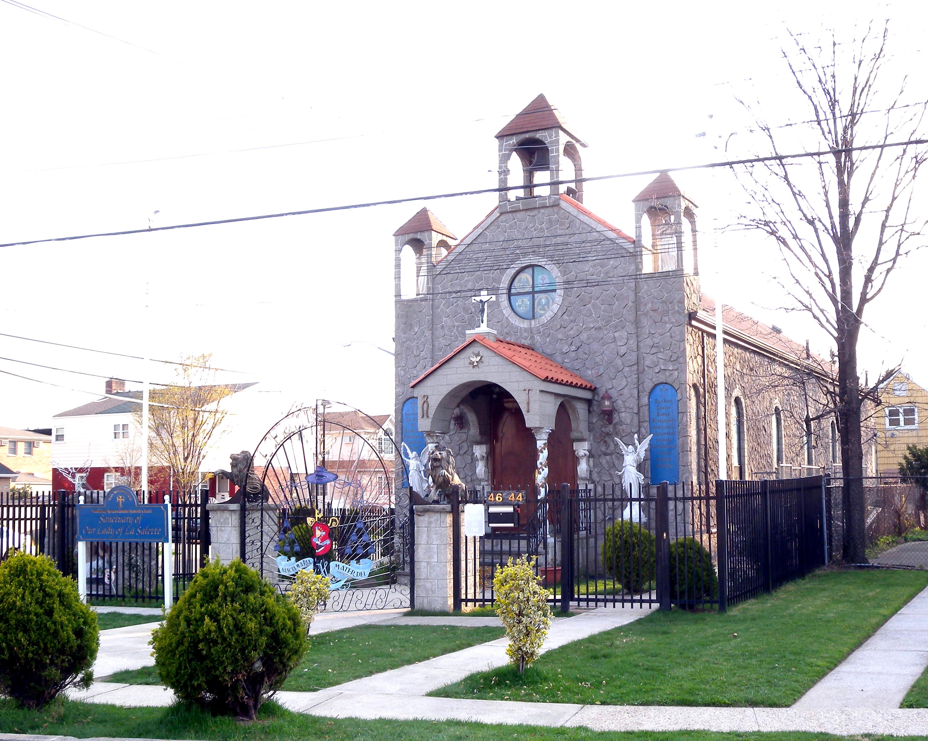 Looking west across 204th Street at Our Lady of La Salette shrine at 47th Avenue on a mostly cloudy late afternoon. See 46-44 204th Street.